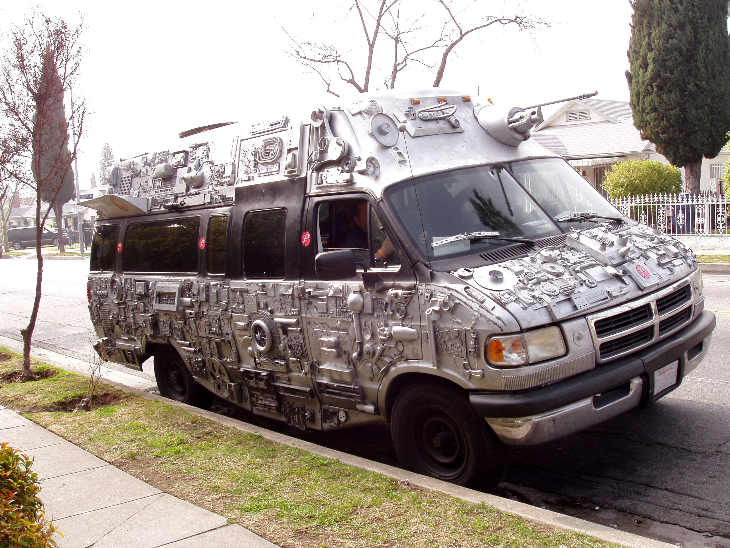 The Phenomabomber - A van customized by Oakland, California band The Phenomenauts to match their space and science fiction theme. Photo by Rebecca Lynn.